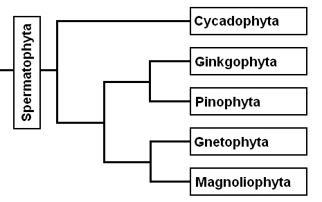 phylogeny of cycads as the oldest living seed plants